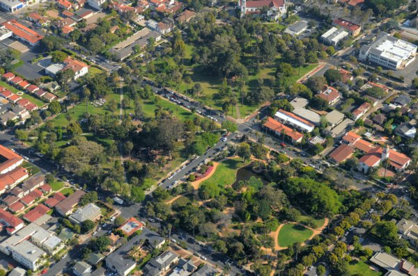 Aerial view toward the southwest, of the Alameda Park complex in Santa Barbara, California, including the adjoining Alice Keck Park Memorial Gardens (bottom of three sections in this photo).